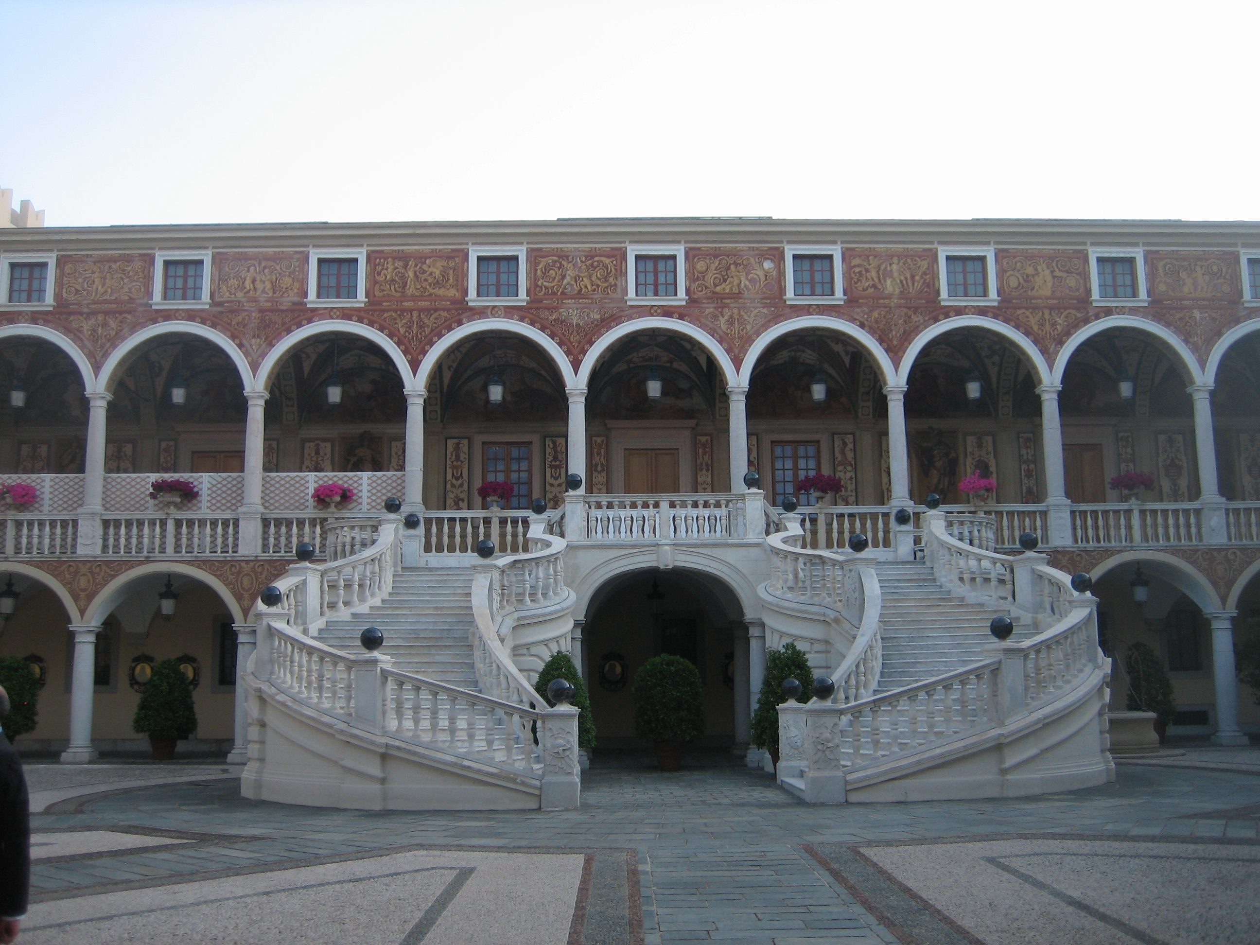 Princely Palace in Monaco: Inner courtyard with stairs.